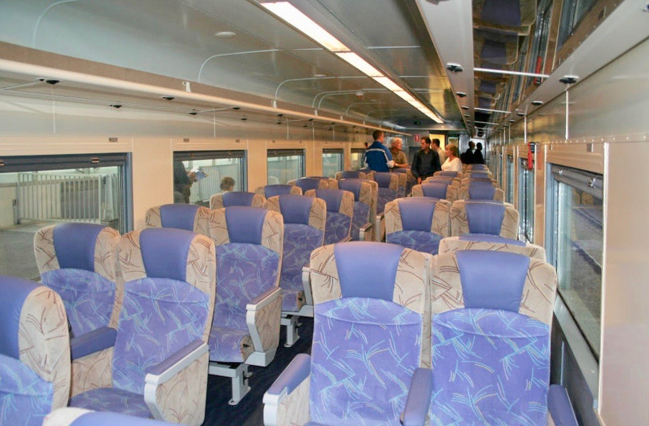 Refurbished 'The Overland' carriage - second class (or whatever wanky name GSR calls it)